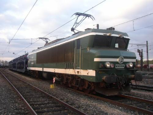 SNCF 6558 in Green at Dijon-Perrigny depot.